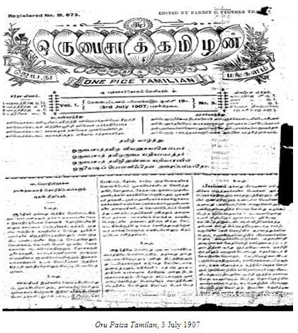 Oru paisa tamilan 1